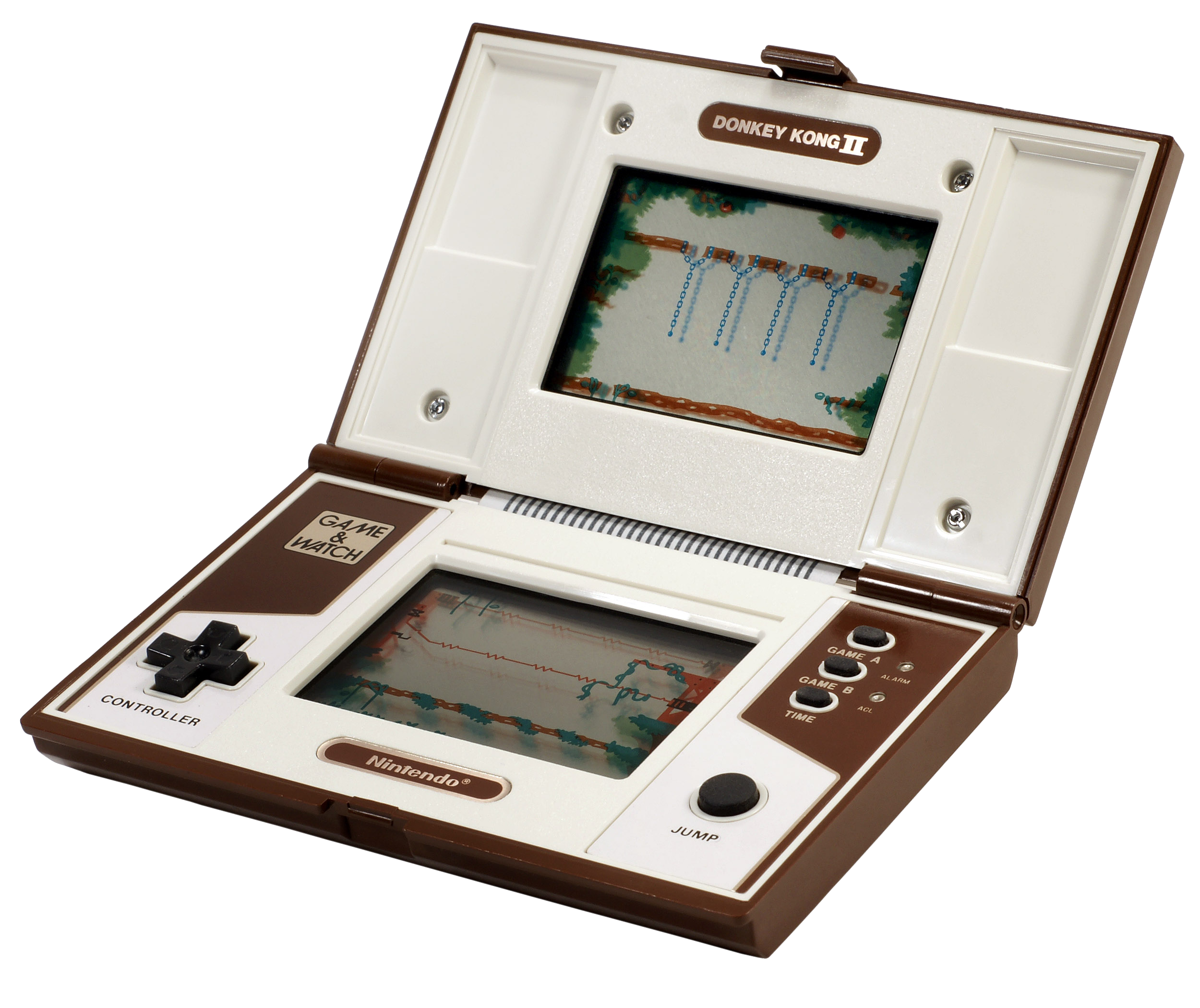 The Game & Watch "Donkey Kong 2" by Nintendo.